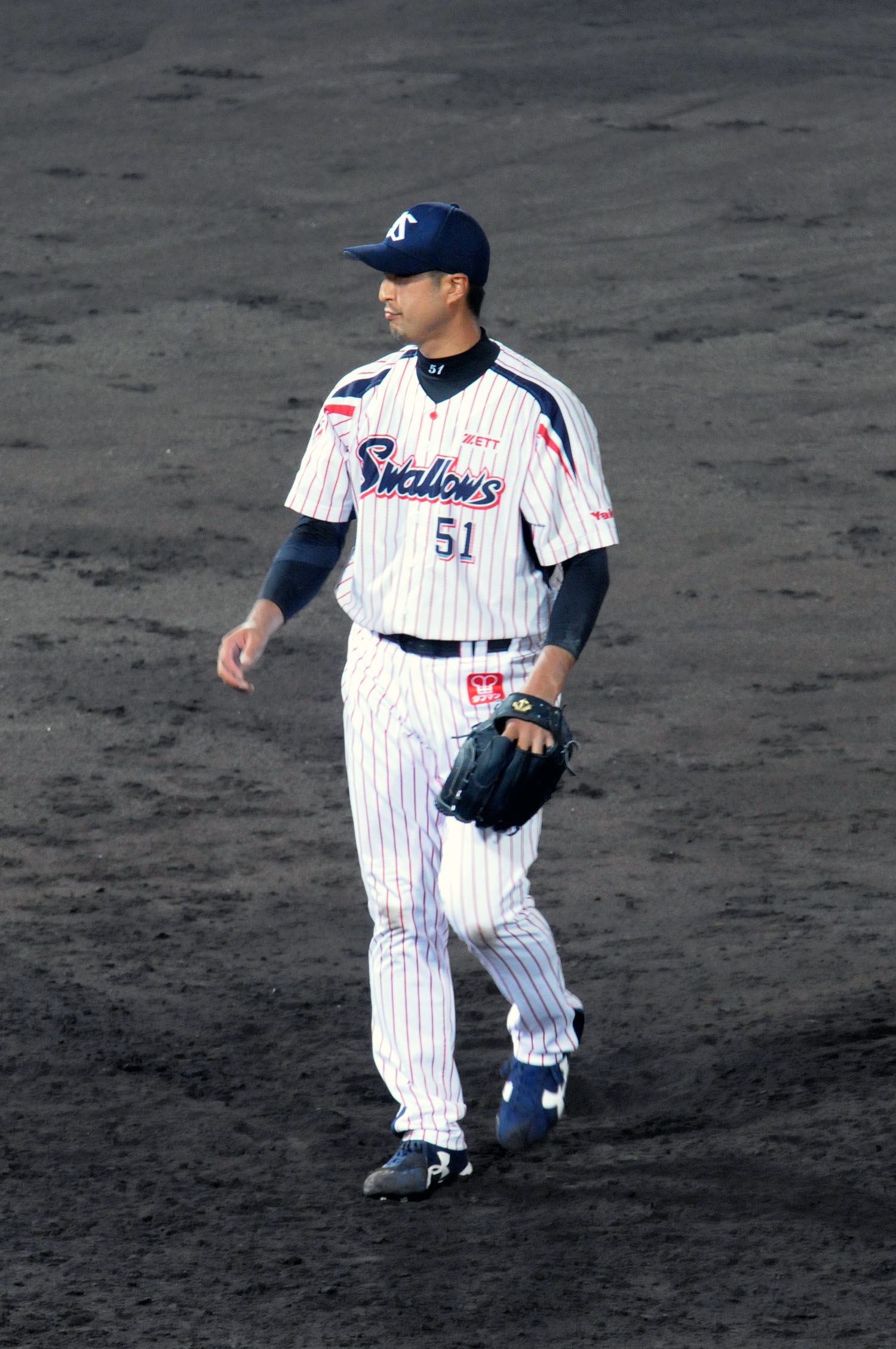 Taiyo Fujita, pitcher of the Tokyo Yakult Swallows, at Akita Prefectural Baseball Stadium.